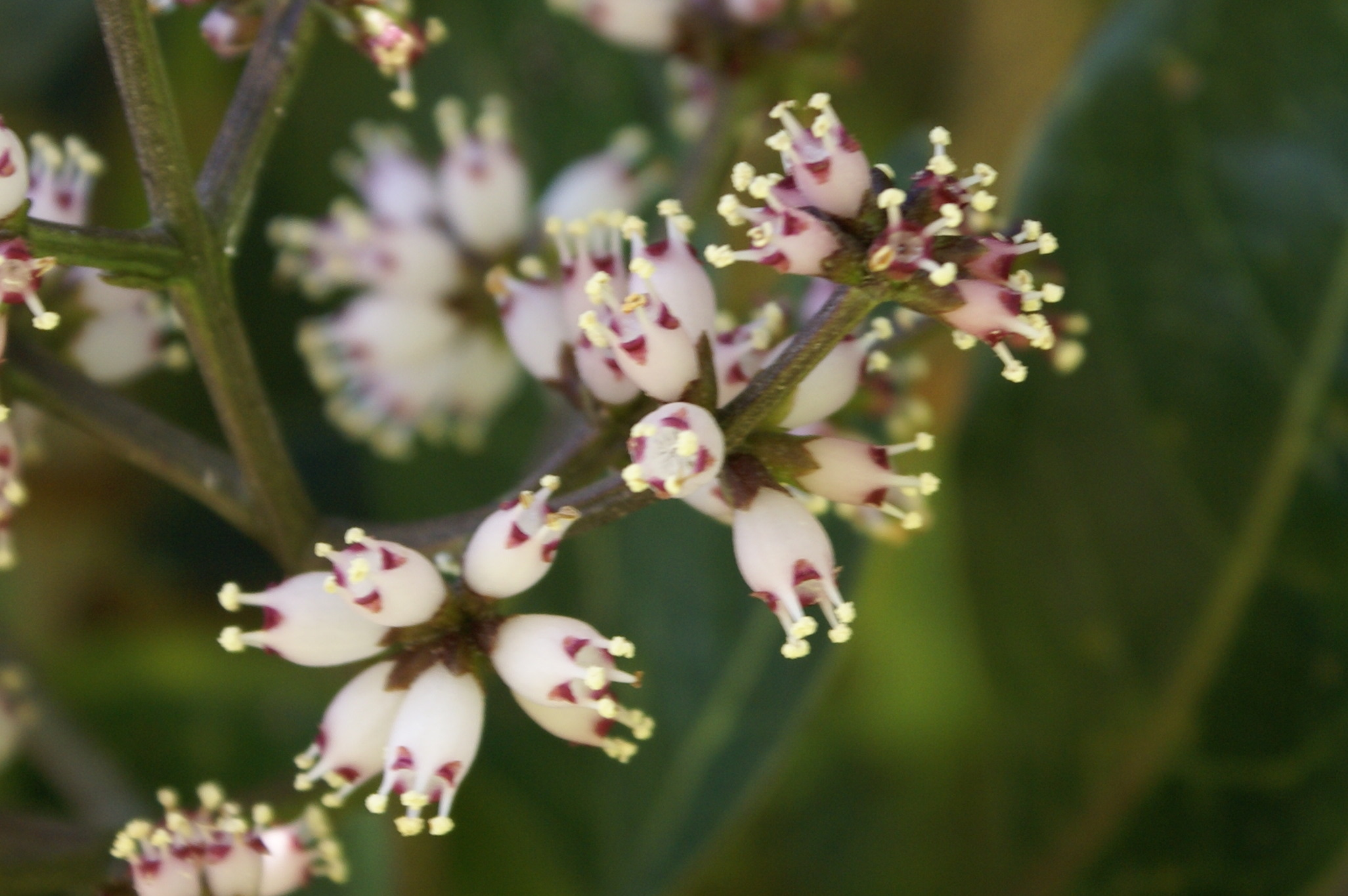 Flowers (close view) of Nuxia verticillata